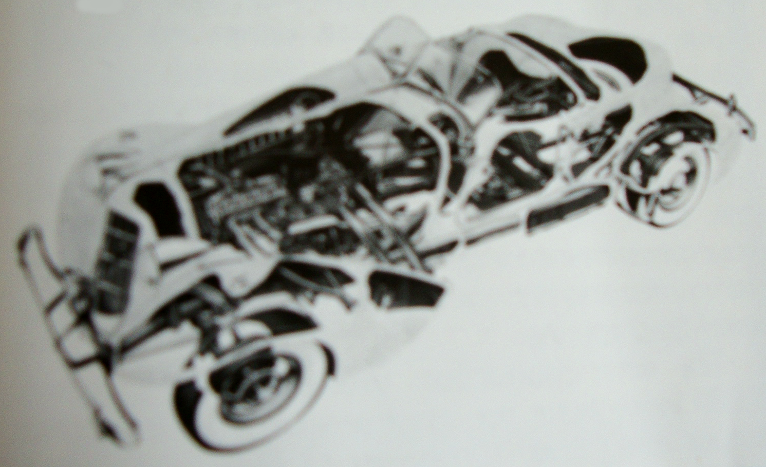 Aubrun Speedster